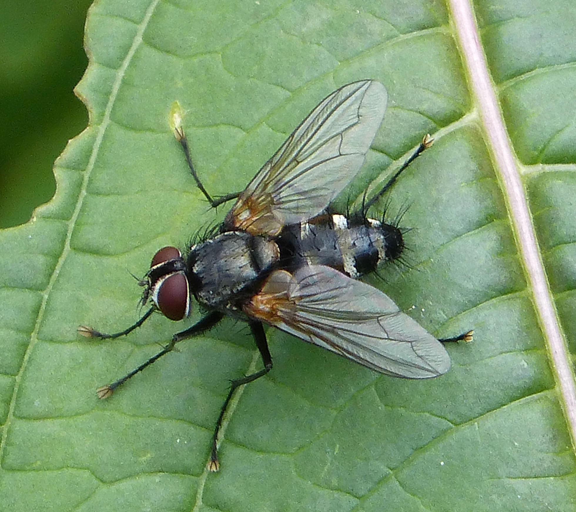 Blackstone Riverside Park, Worcs SO792741